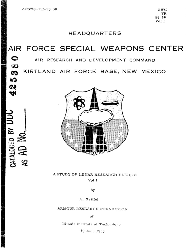 Cover from vol. I of A Study of Lunar Research Flights, a 1950s top-secret plan developed by the United States Air Force with the intention of dropping an atomic bomb on the Moon.